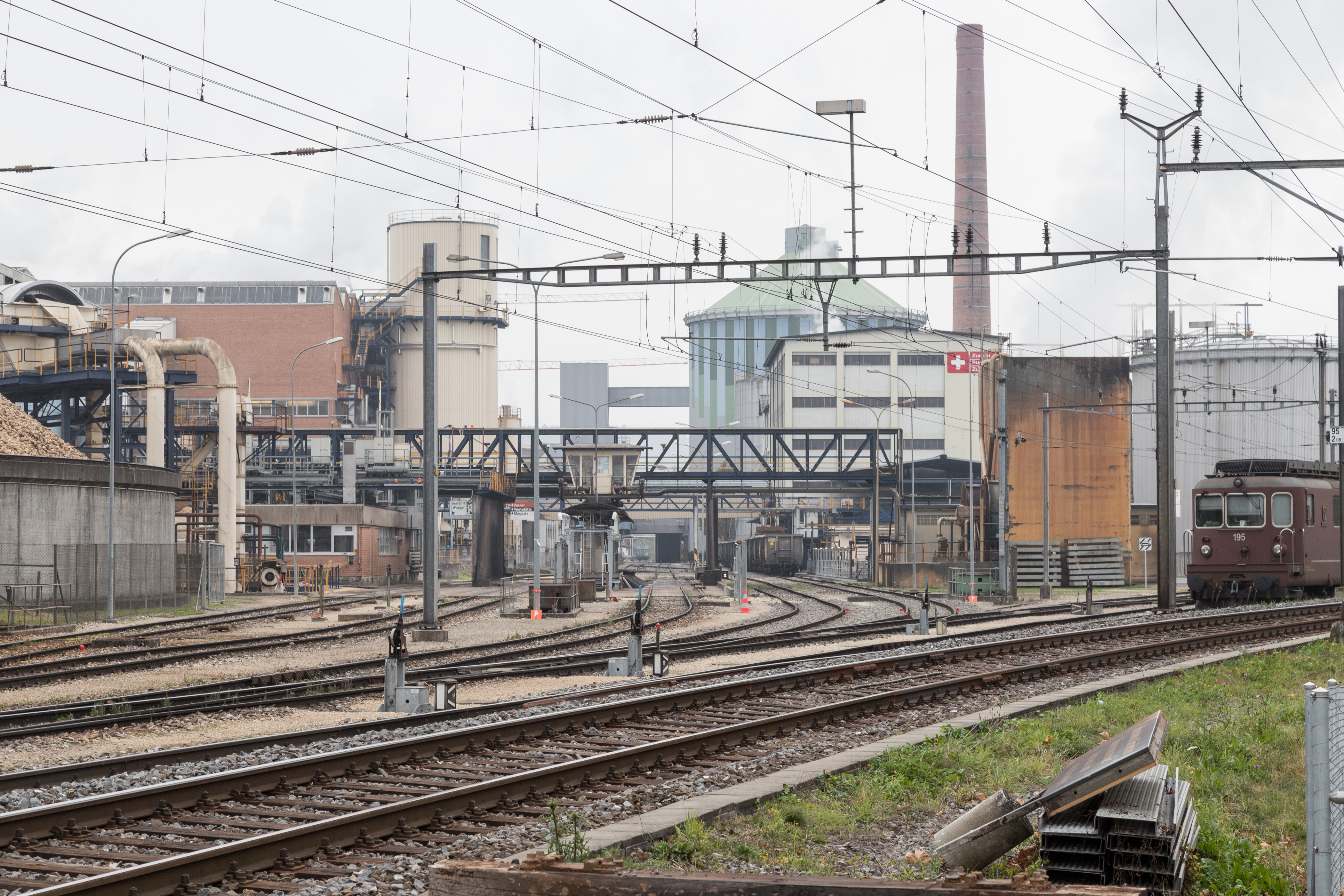 Railway lines to and sugar factory Aarberg